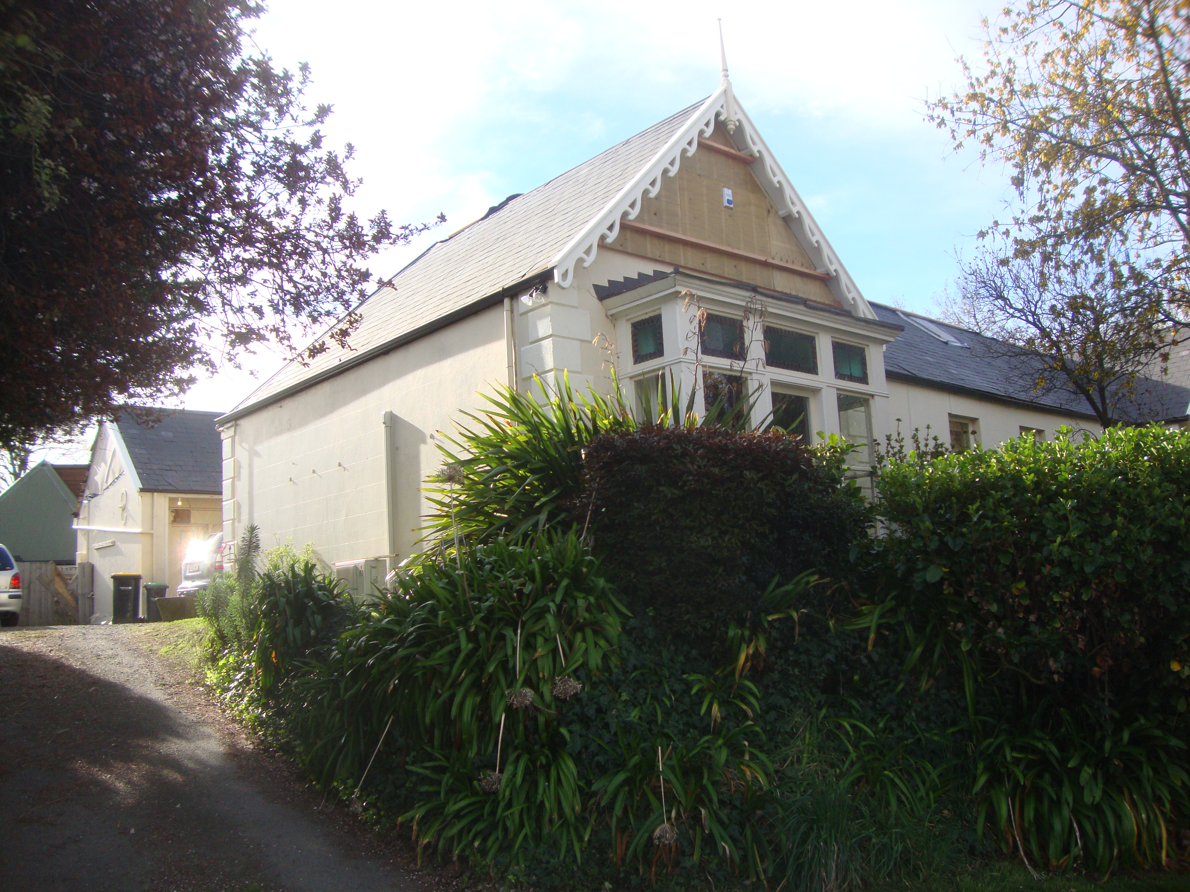 The Hollies, Christchurch, in September 2011.